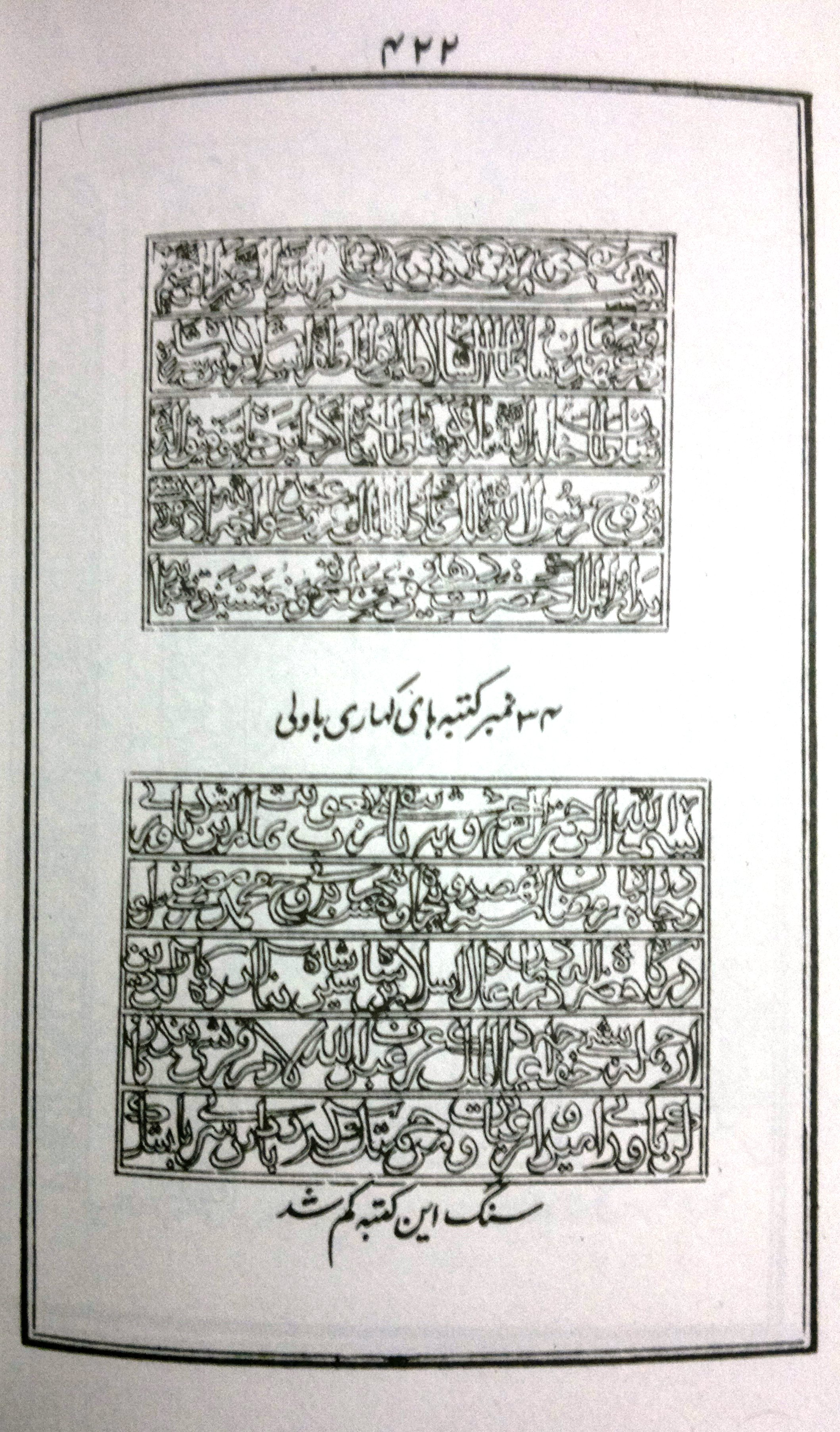 This is an image of a page from Sir Syed Ahmad Khan's seminal work on Delhi's monuments- Aasar Us Sanadeed ( AuS). These inscriptions were found on the walls of 'Khari Baoli'- a step-well that gave the bazaar its name. Nothing remains of the said monument now. It seems to have existed as late as 1854, when the second edition of AuS was published.